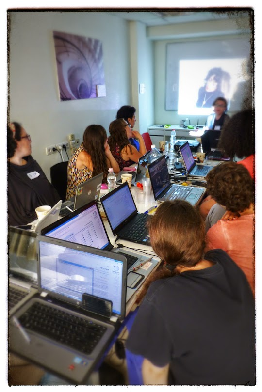 Wiki Women Editors Project - Opening Meeting